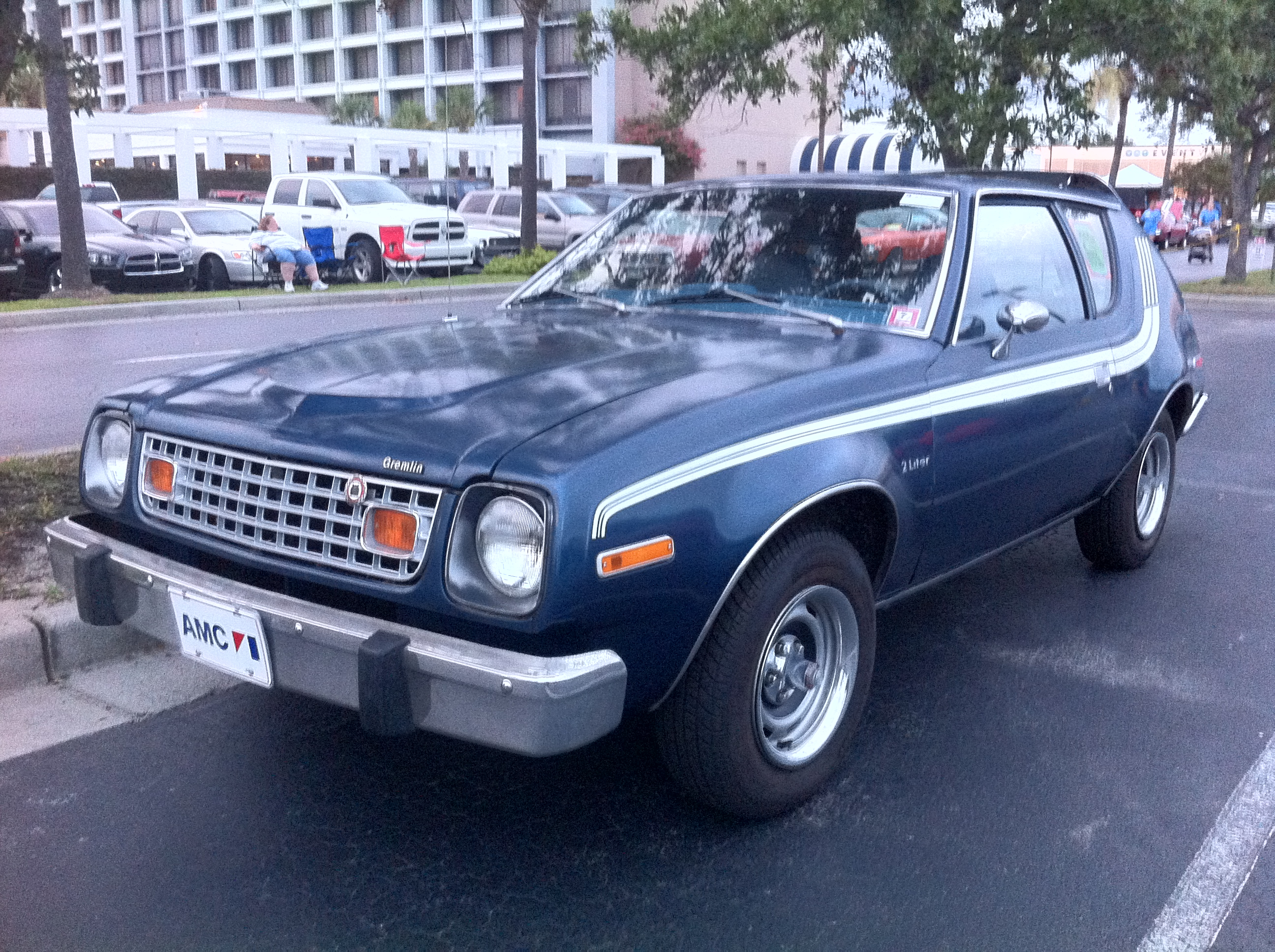 1977 AMC Gremlin 2 Liter Custom. A sub-compact automobile manufactured by American Motors Corporation (AMC). This car has the optional carbureted four-cylinder engine (standard was AMC's 232 cu in (3.8 L) straight six that was only available with the "Custom" package. This engine is a version of the Volkswagen/Audi 2.0 L (120 cu in) inline-four that was also used in the Porsche 924 with fuel-injection. Photographed at the 2014 American Motors Owners (AMO) convention that was held in North Charleston, North Carolina, USA.